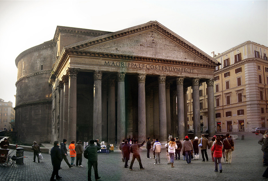 Pantheon, Rome.